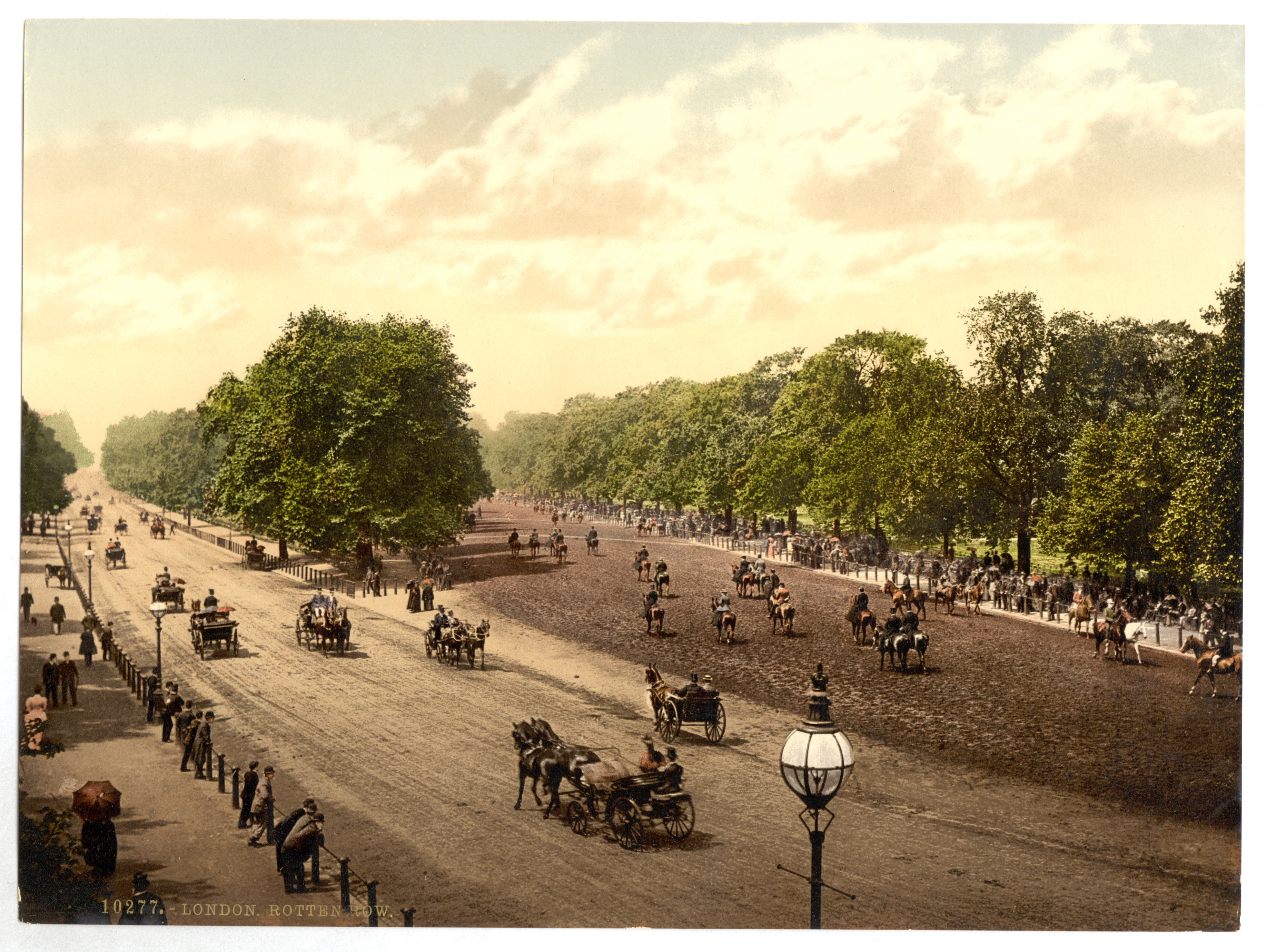 Forms part of: Views of the British Isles, in the Photochrom print collection.; More information about the Photochrom Print Collection is available at Title from the Detroit Publishing Co., Catalogue J-foreign section, Detroit, Mich. : Detroit Publishing Company, 1905.; Print no. "10277".